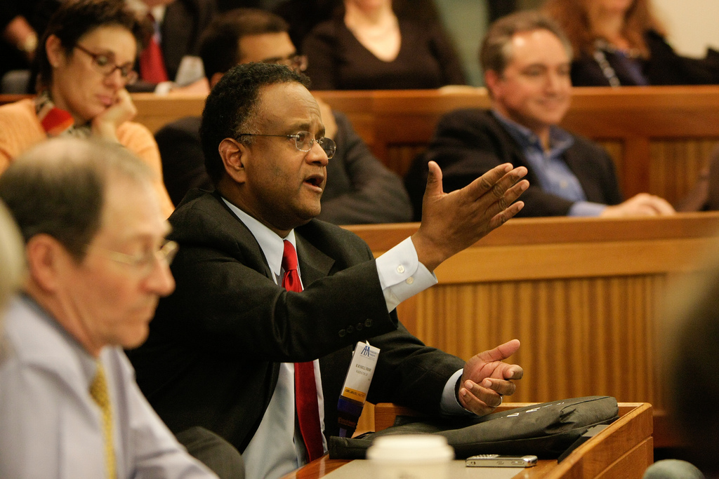 H. Russell Frisby participating in a 12 February 2009 roundtable on "Managing the Bailout," hosted by the Rappaport Center for Law and Public Service. Image captured at Suffolk University Law School, 120 Tremont Street, Boston, Ma 02108